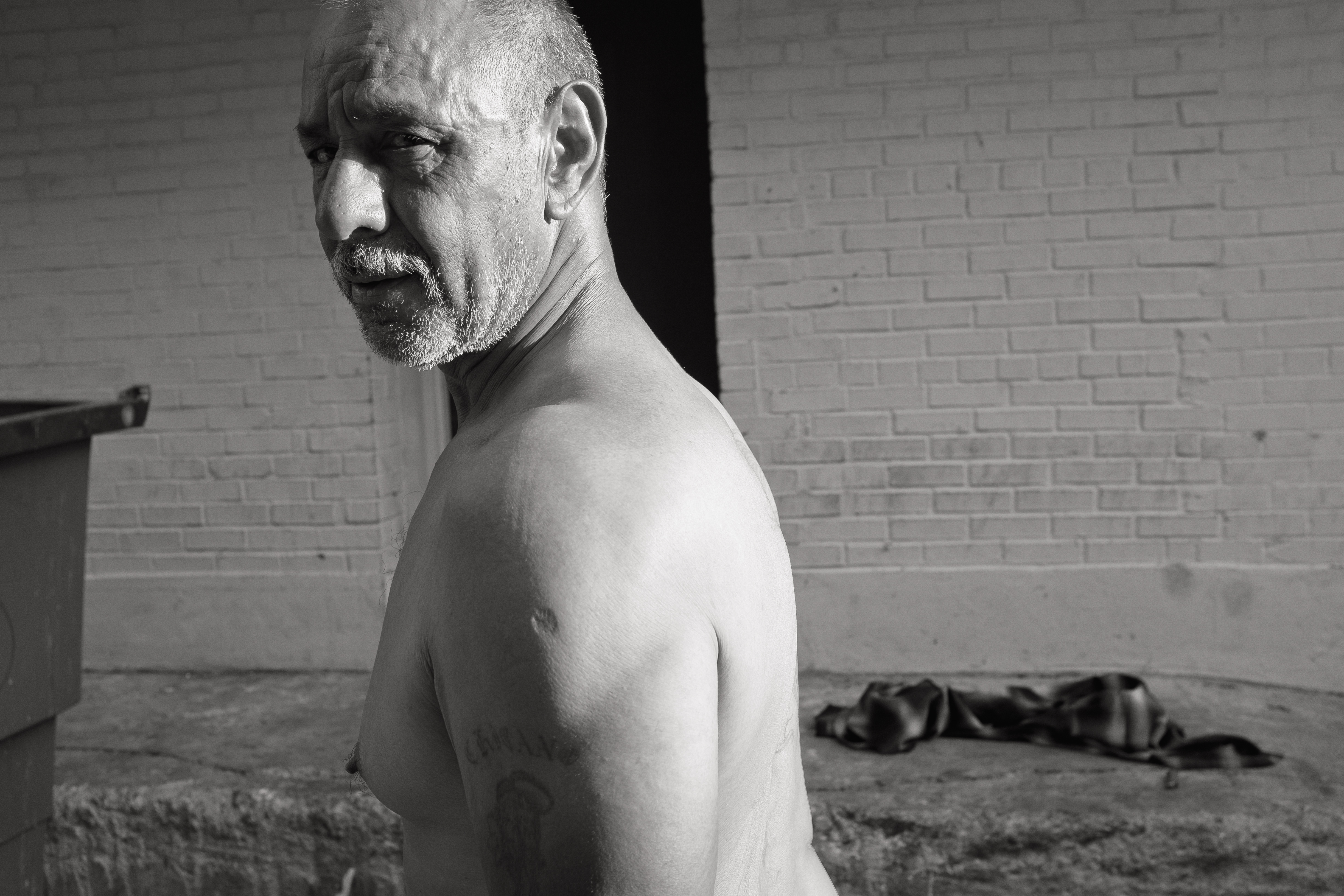 Photo of a shirtless man with a faded tattoo of the word "Chicano" in stylized lettering.